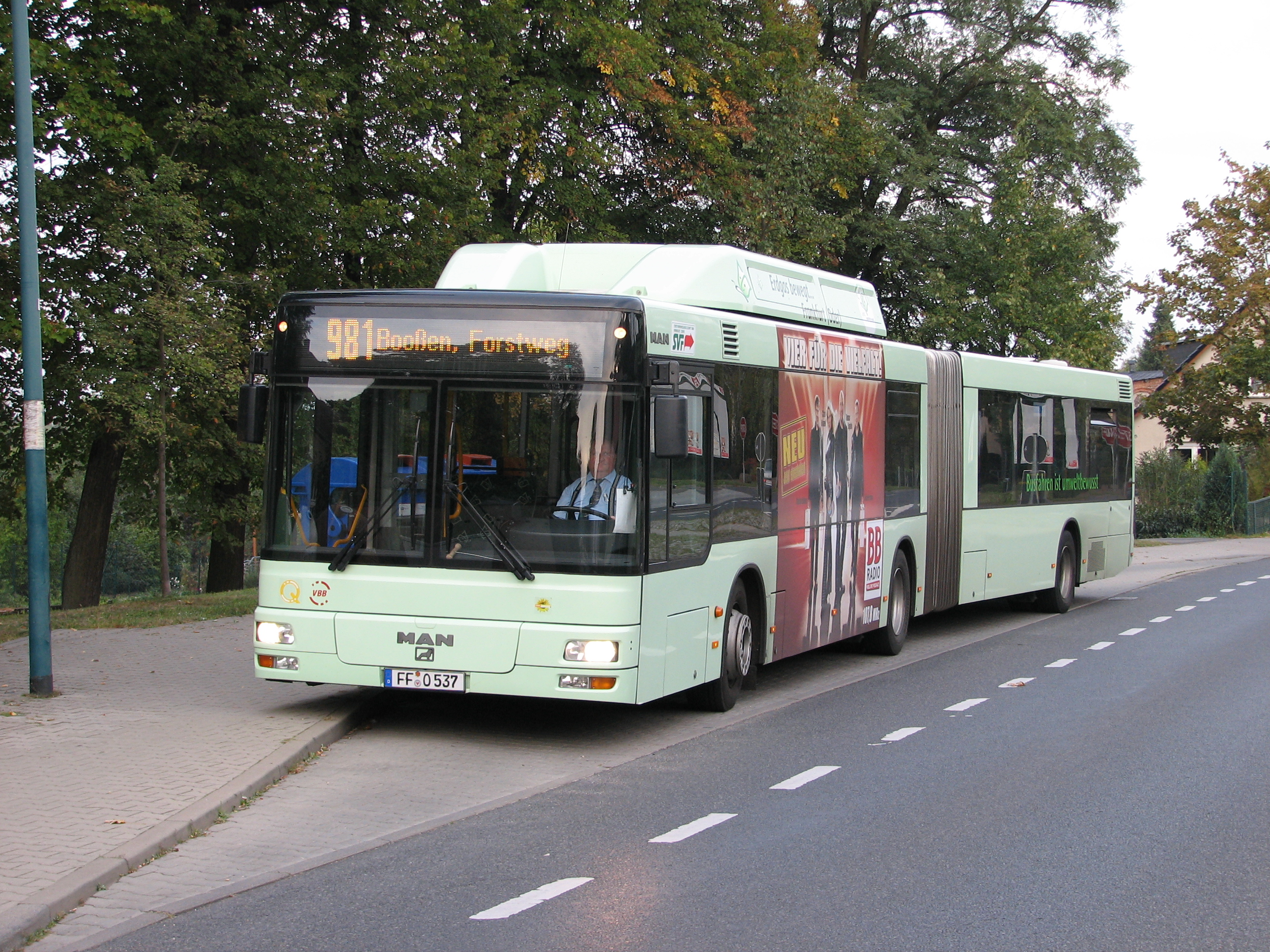 MAN NG313 CNG Low-Floor Natural-Gas Bus FF-O 537 in Frankfurt (Oder) Booßen, Germany. Built 2003.